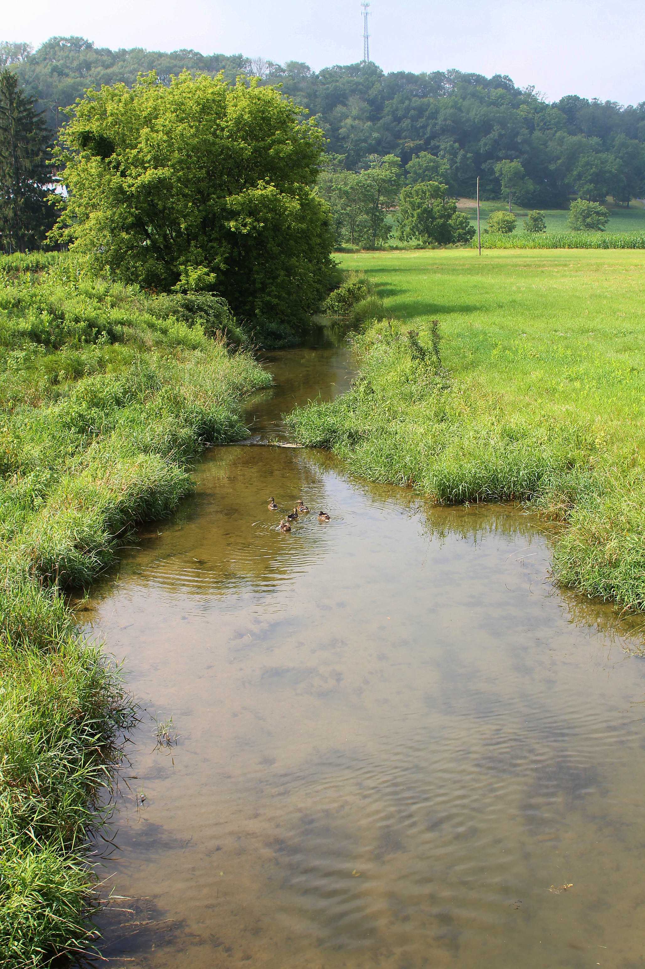 Limestone Run looking downstream from Follmer Road